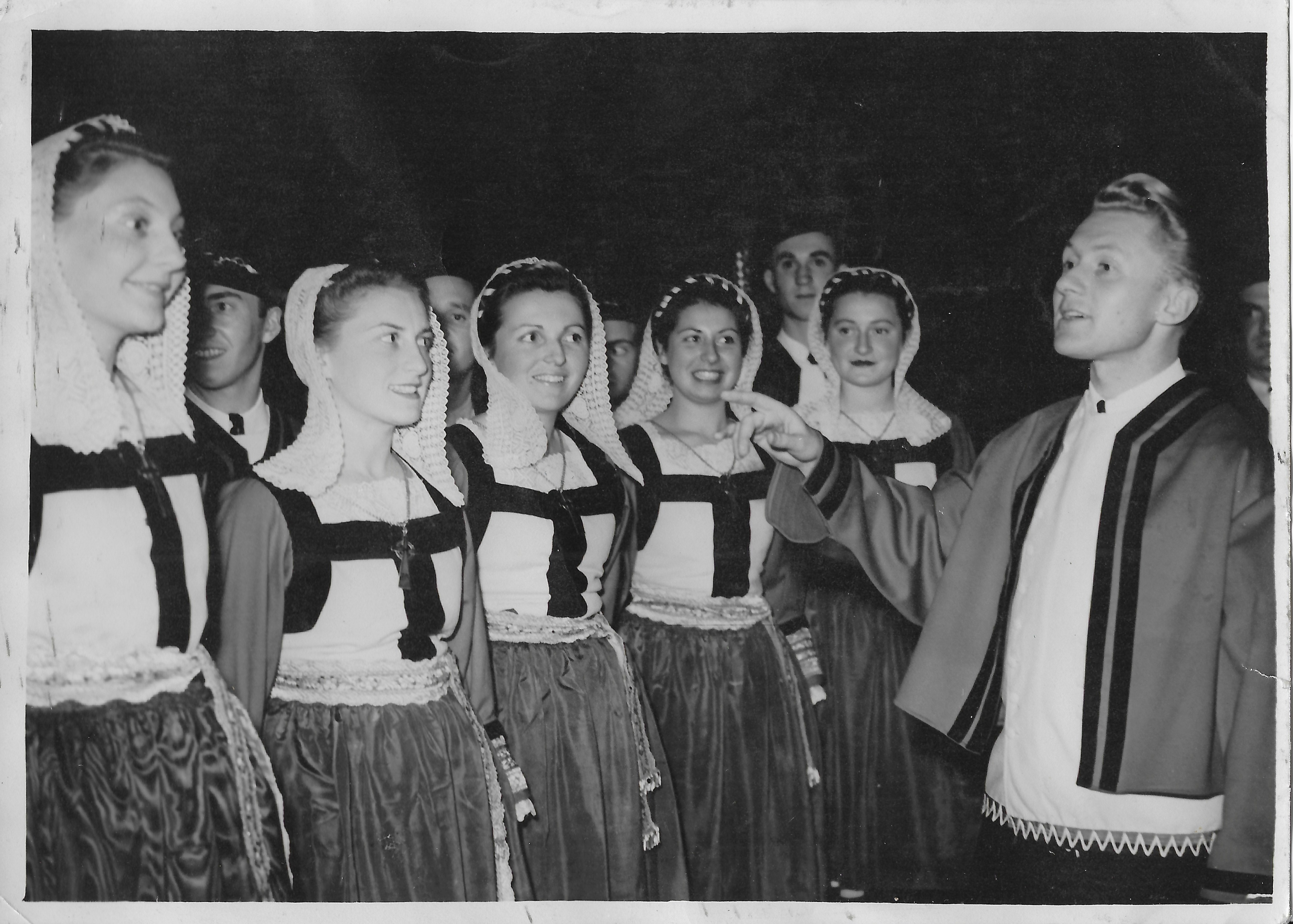 Bernard de Paredes leading his stage dance group before the performance.